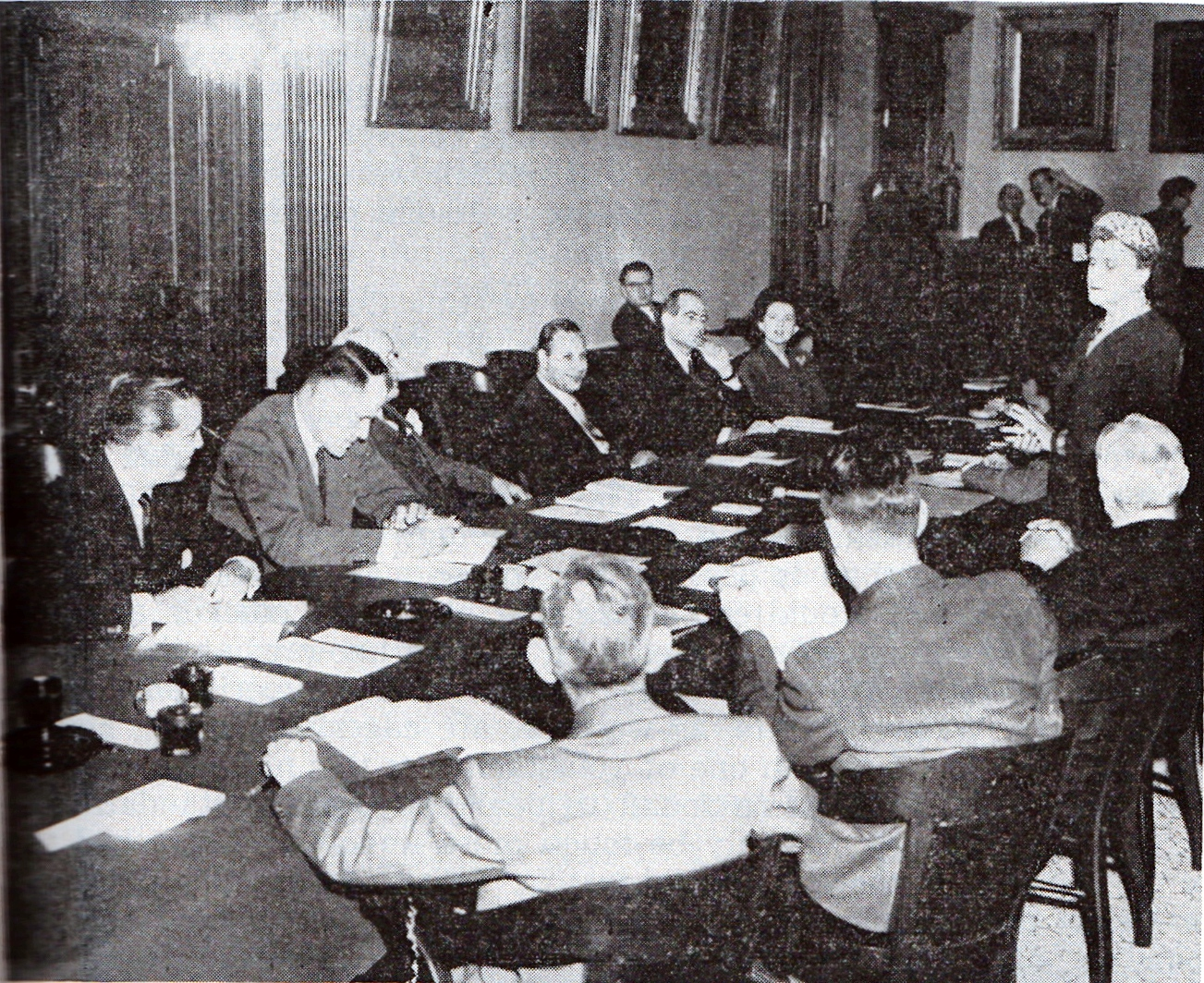 Mint Director Nellie Tayloe Ross (left) addresses the opening session of the 1952 United States Assay Commission.